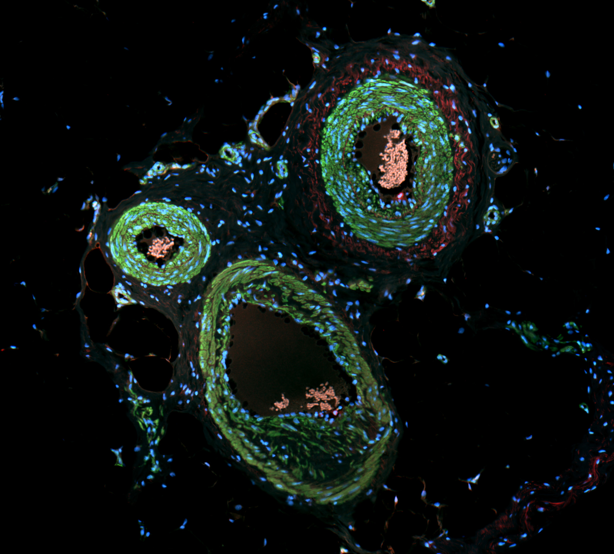 Vasculature of porcine skin under fluorescence - smooth muscle actin with AlexaFluor 488 Green = smooth muscle actin (SMA) with Alexa 488 fluorophore, Blue = DAPI counterstain, Red = auto-fluorescence The image has been rotated from the original and the background black level was adjusted and it is a very small crop out of a much larger image.